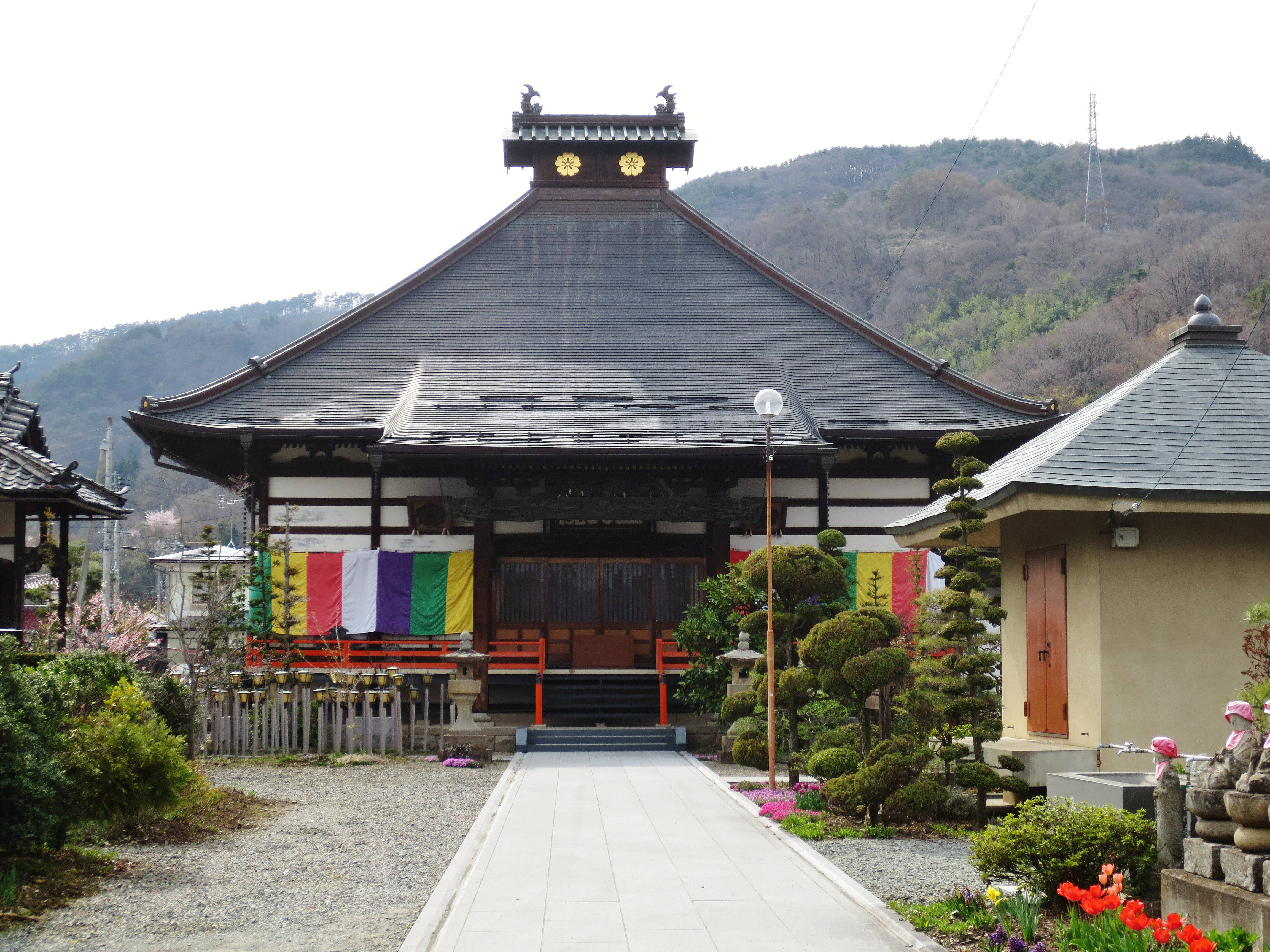 Inariyama-juku Chounji.